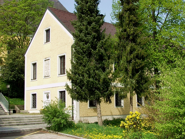 Birthplace of famous musician Anton Bruckner in Ansfelden, Upper Austria, Austria.